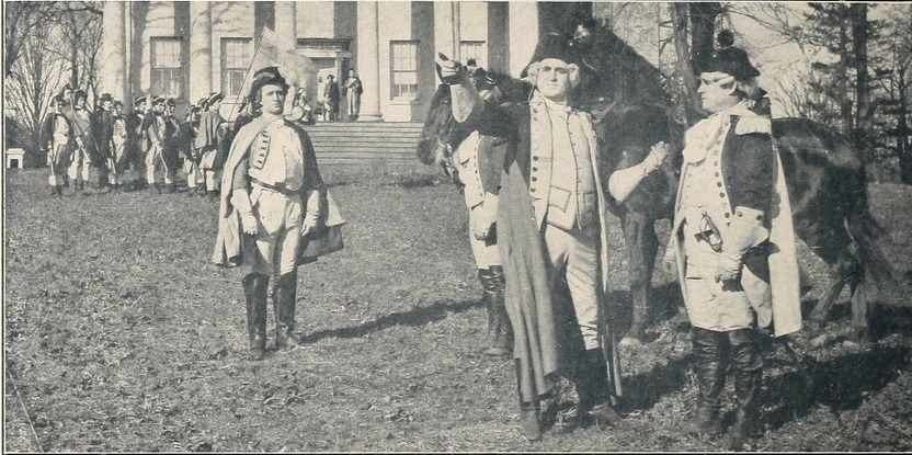 A film still from For Washington by the Thanhouser Company. The still is published in the 1911 edition of Moving Picture News.